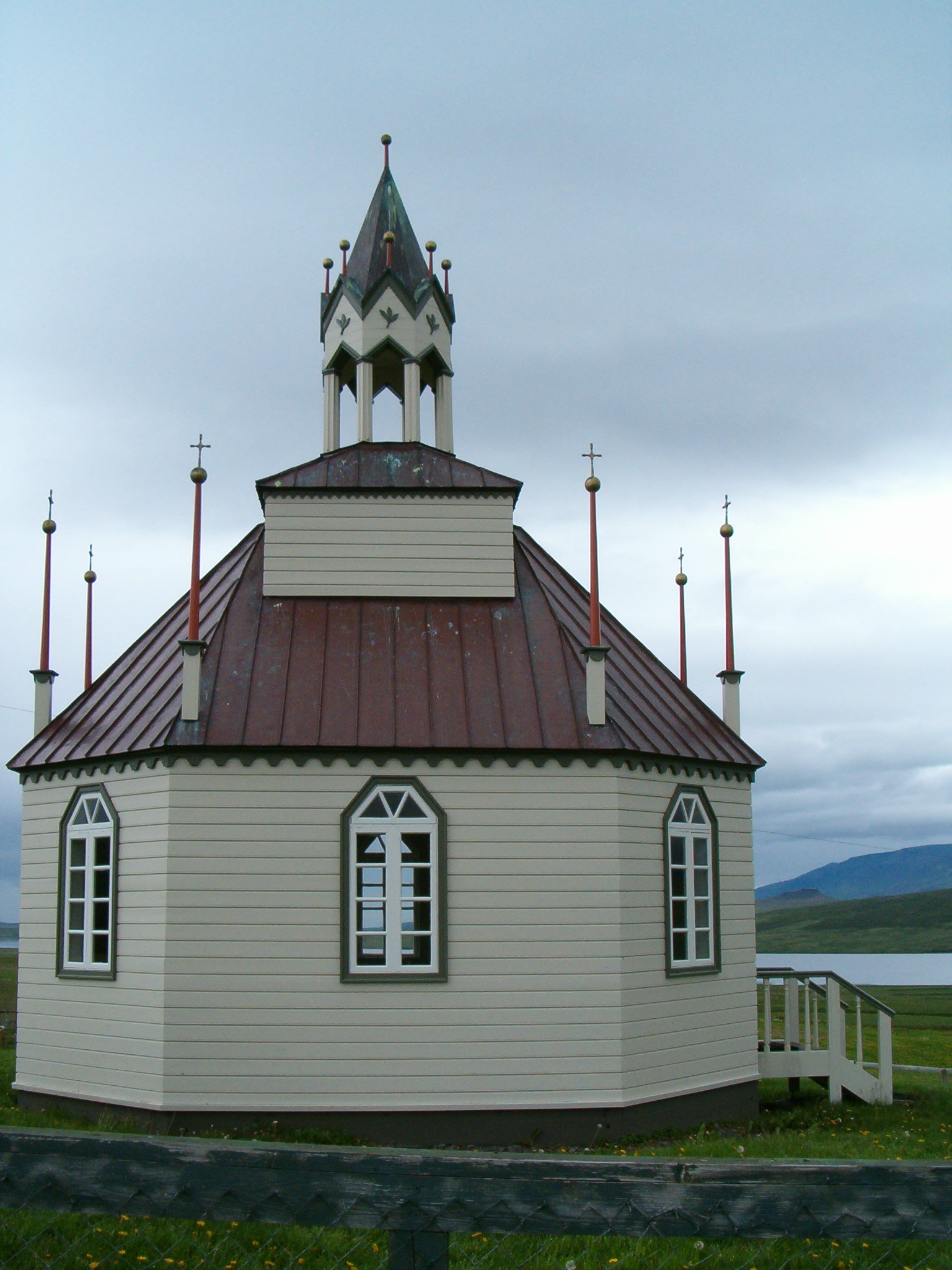 Audkúla, a church at the Svínavatn lake, North Iceland.